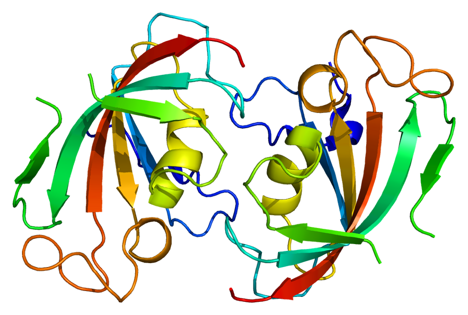 Structure of the FKBP4 protein. Based on PyMOL rendering of PDB 1n1a.